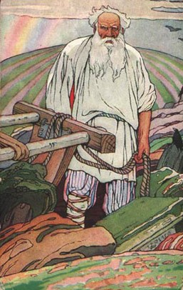 Postcard by Matorin Nikolay Vasilyevich. The character from a Russian fairy tale